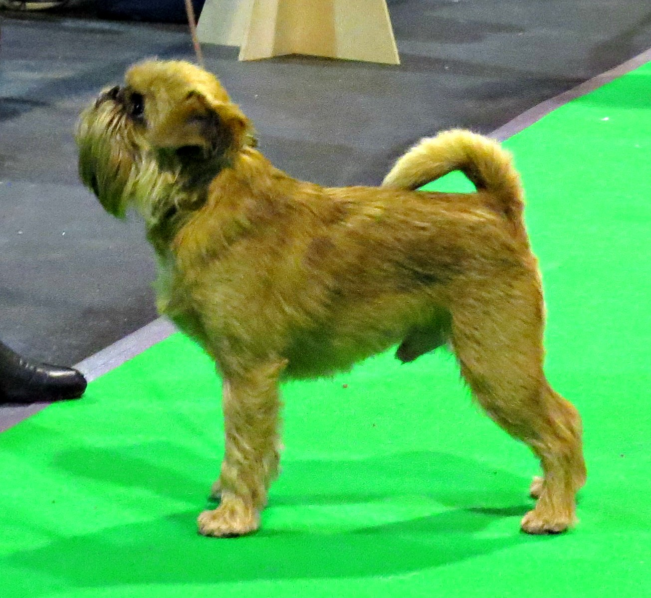 Riga, Baltic Winner -2013, 9-10 Nov